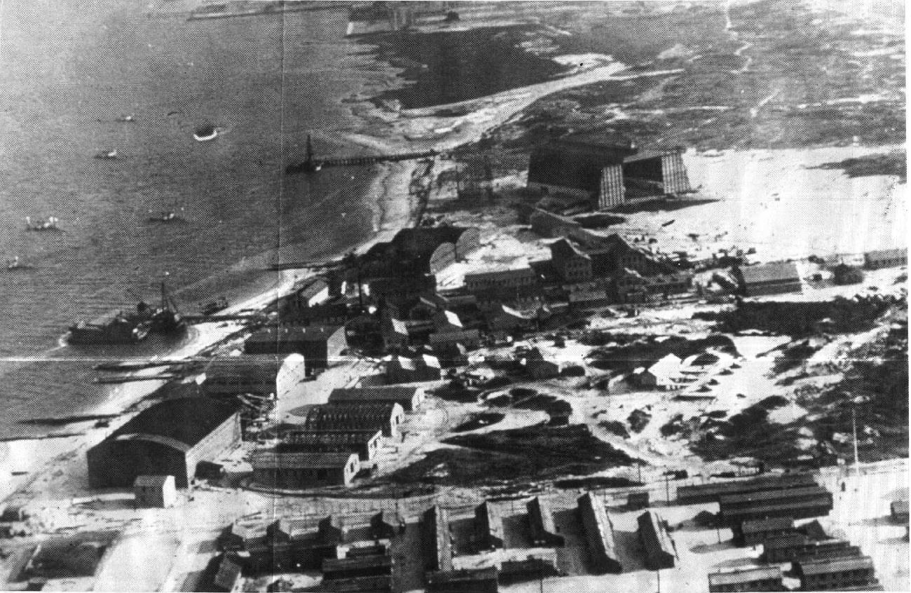 Aerial view of the U.S. Naval Air Station Rockaway, New York (USA), in 1919 looking eastward with Rockaway Inlet on the left.